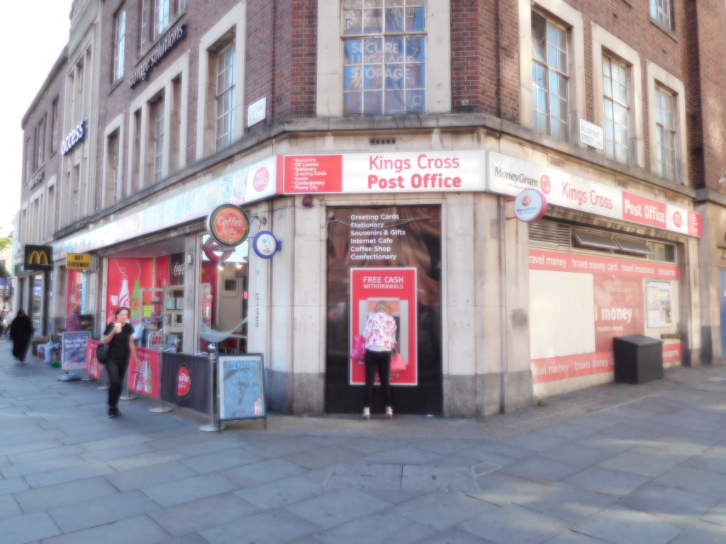 This is Kings Cross Post Office in Kings Cross, London.